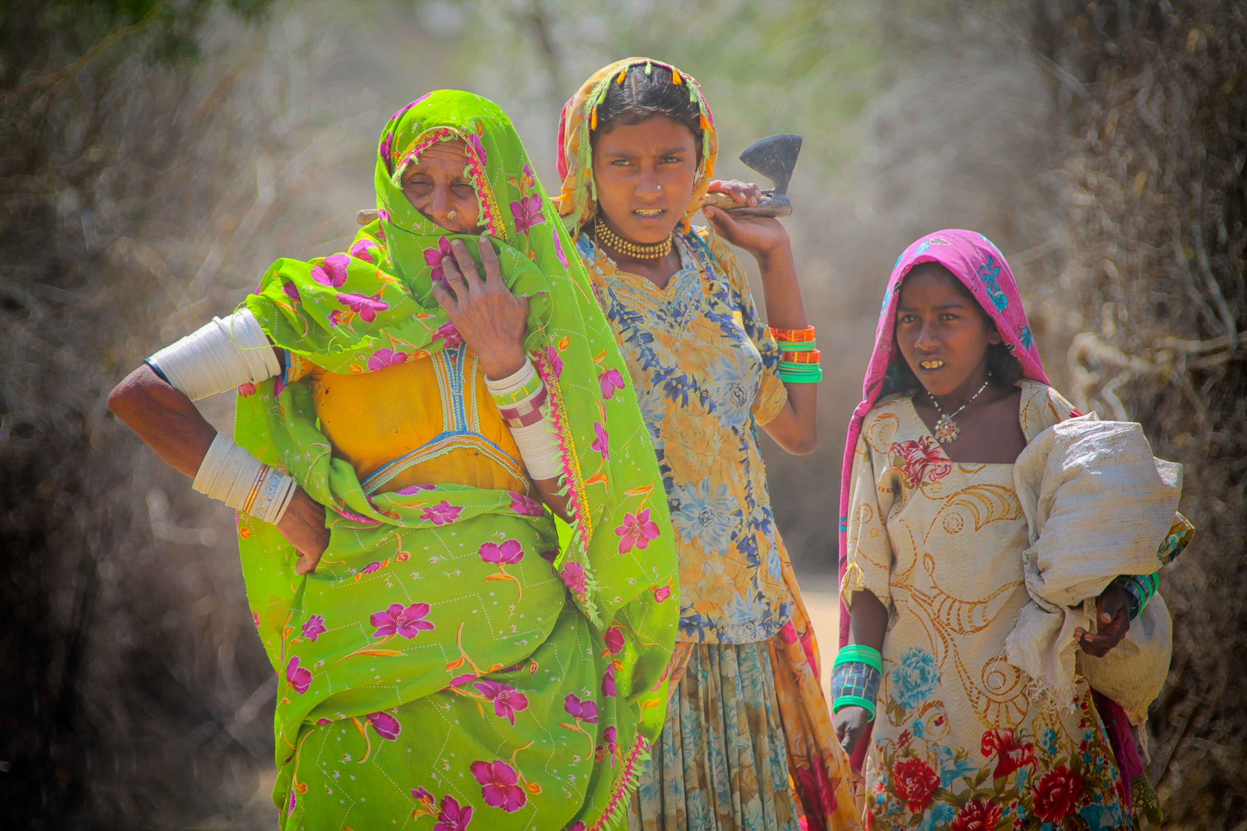 what colourful dresses women wear in Tharparkar District, Sindh